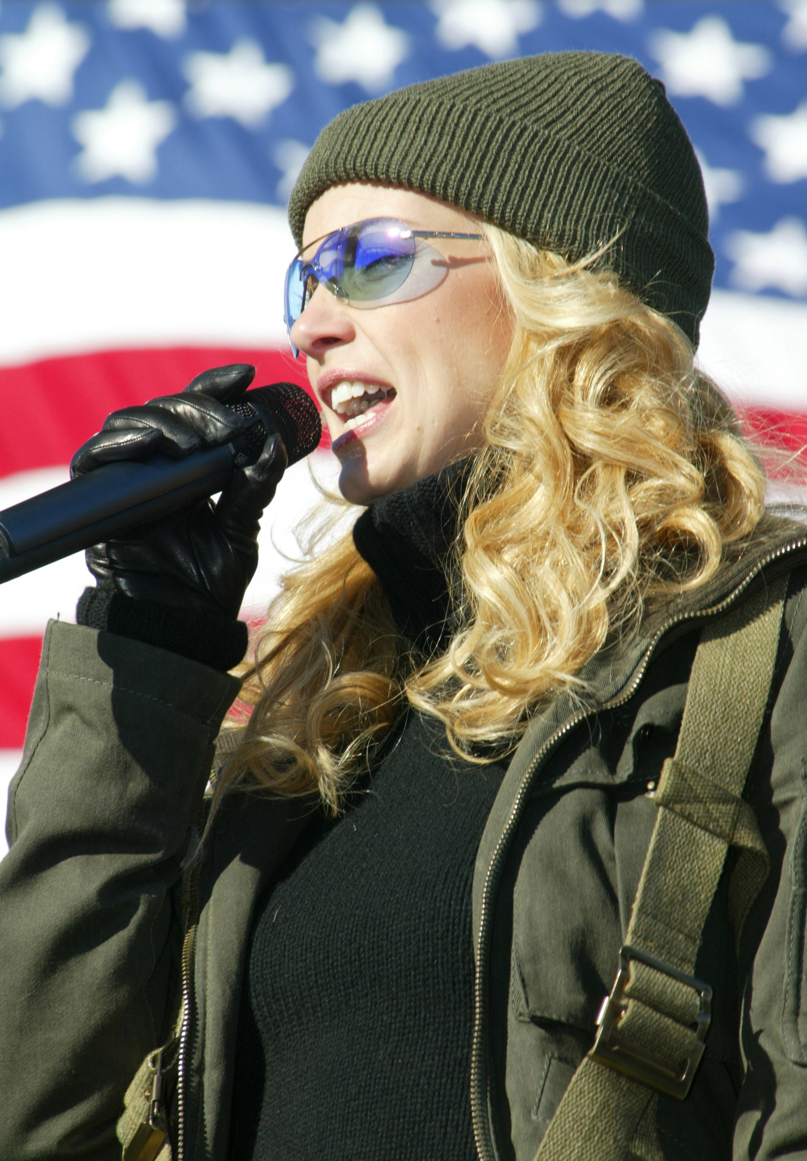 Faith Hill sings during a free concert she performed for people from here and nearby Pope Air Force Base on Feb. 13. The three-time Grammy Award-winning country musician performed a live five-song concert as a tribute to America's armed forces and as part of a live broadcast of ABC's "Good Morning America.